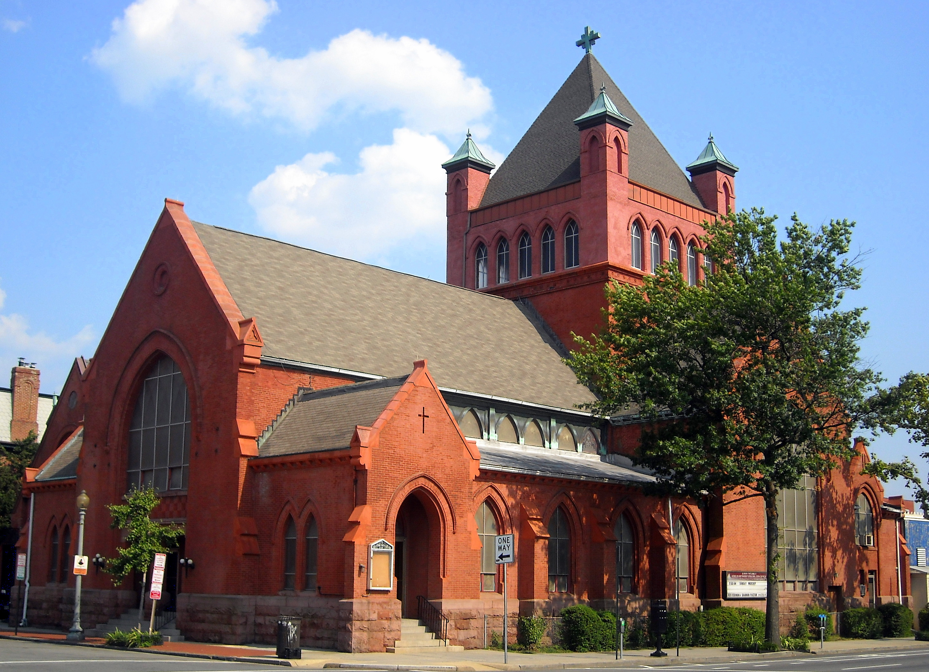 The John Wesley A.M.E. Zion Church located at 1615 14th Street, NW, in the Logan Circle neighborhood of Washington